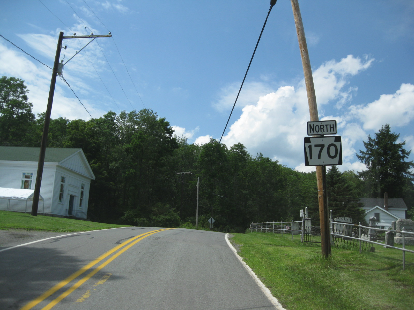 Pennsylvania State Route 170 heading northbound around a curve in Prompton, Pennsylvania.